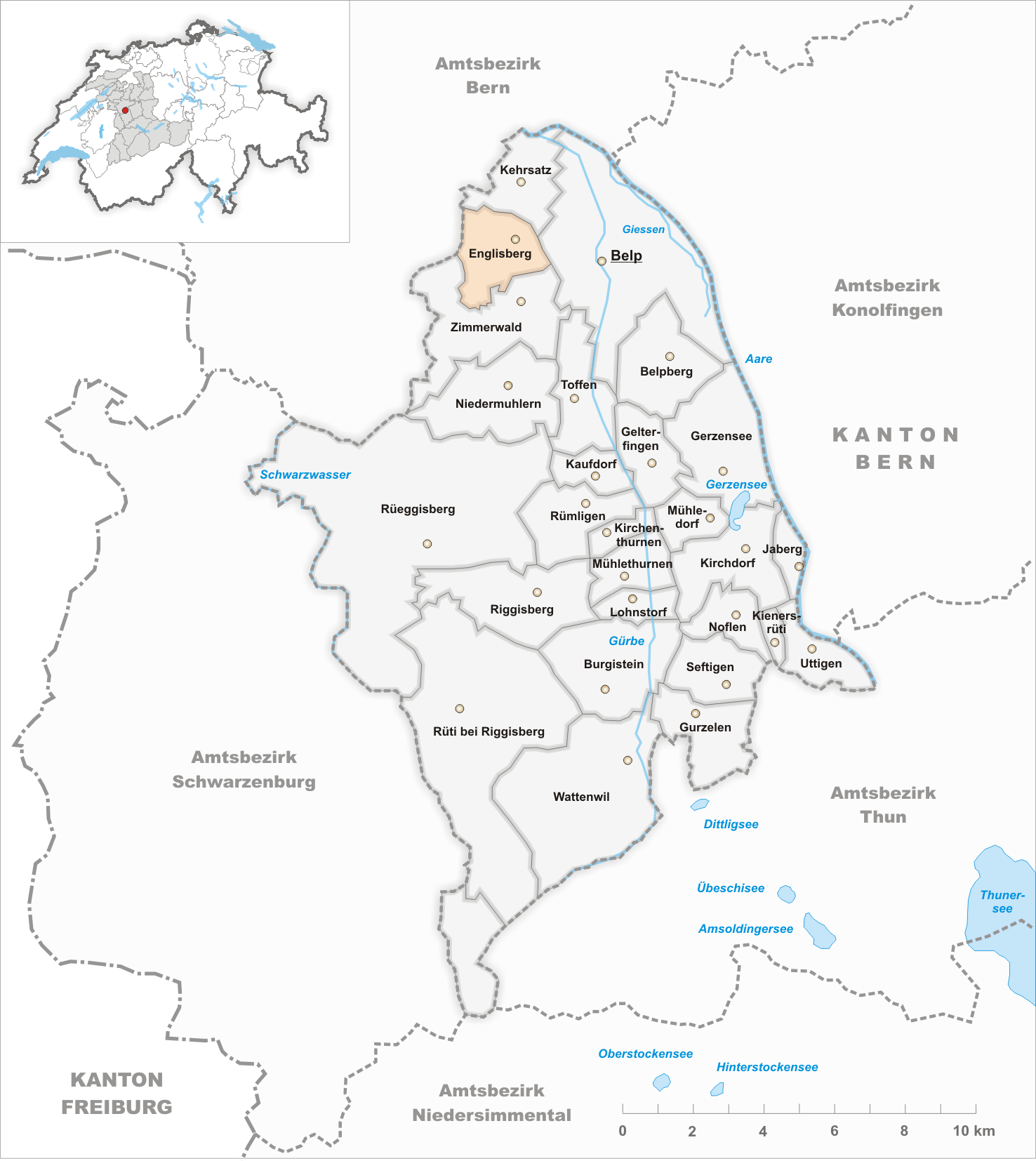 Municipality Englisberg